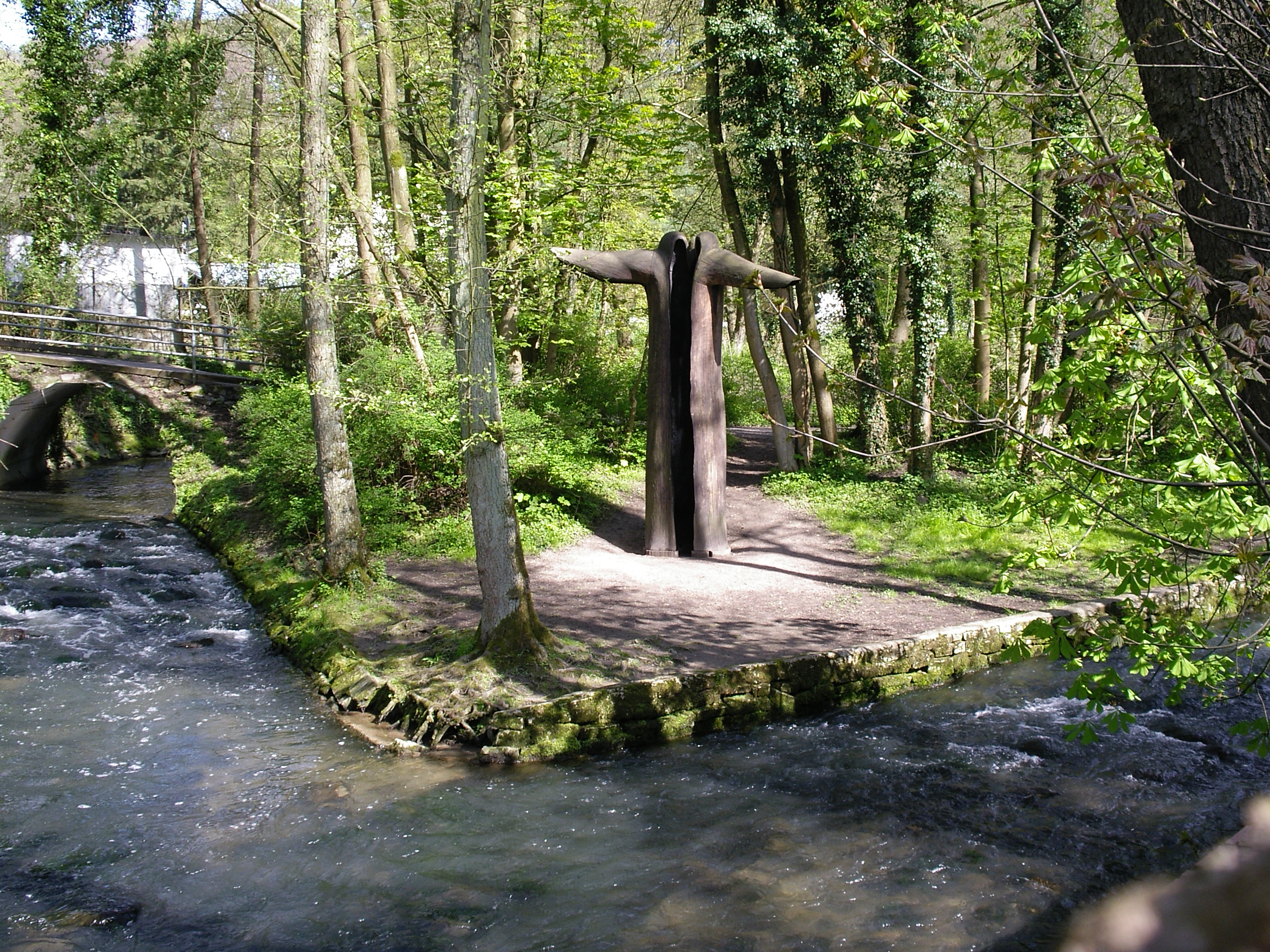 "Woher-Wohin" by Volker Friedrich Marten, Oak-trunk, height 4,50 m; Düssel river in Neandertal (Germany)